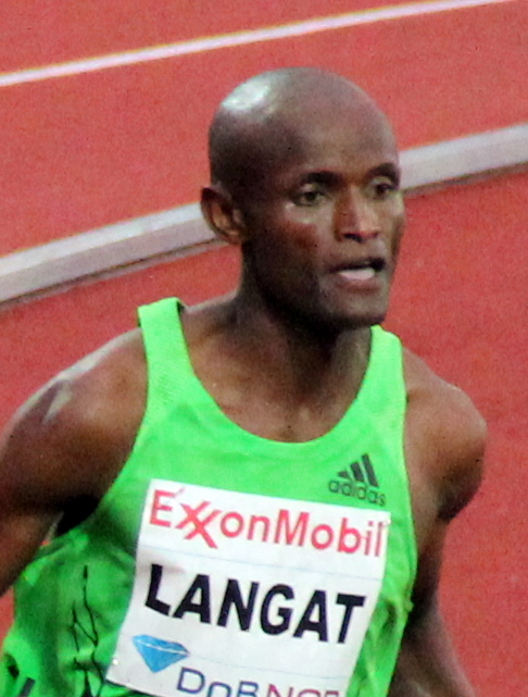 Patrick Langat at the 2011 Bislett Games